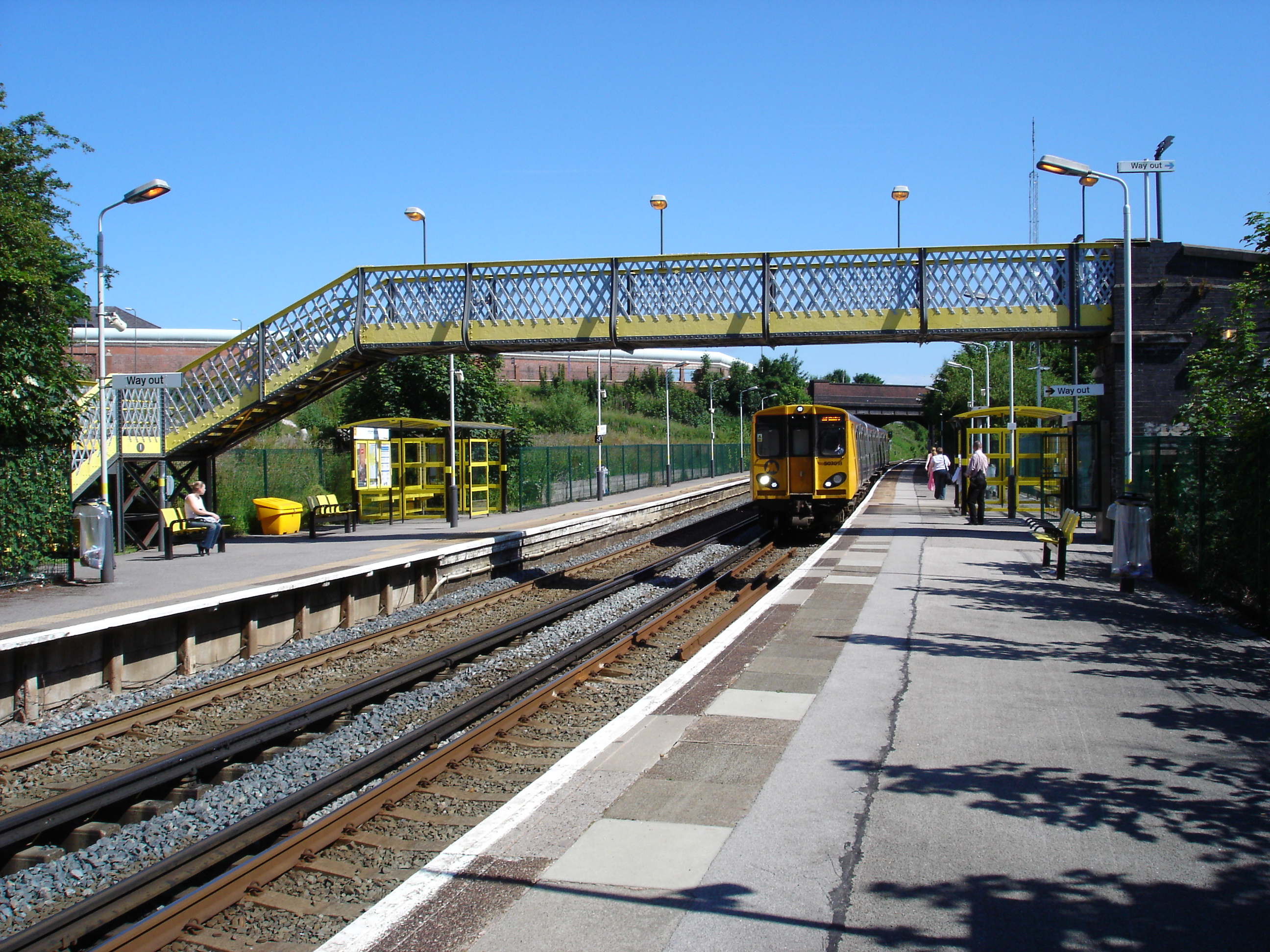 taken by Andimania